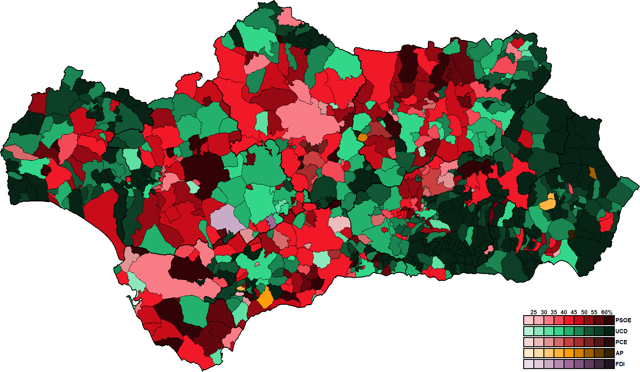 Most-voted party in Andalusia municipalities, showing vote share obtained, in the Spanish general election, 1977.